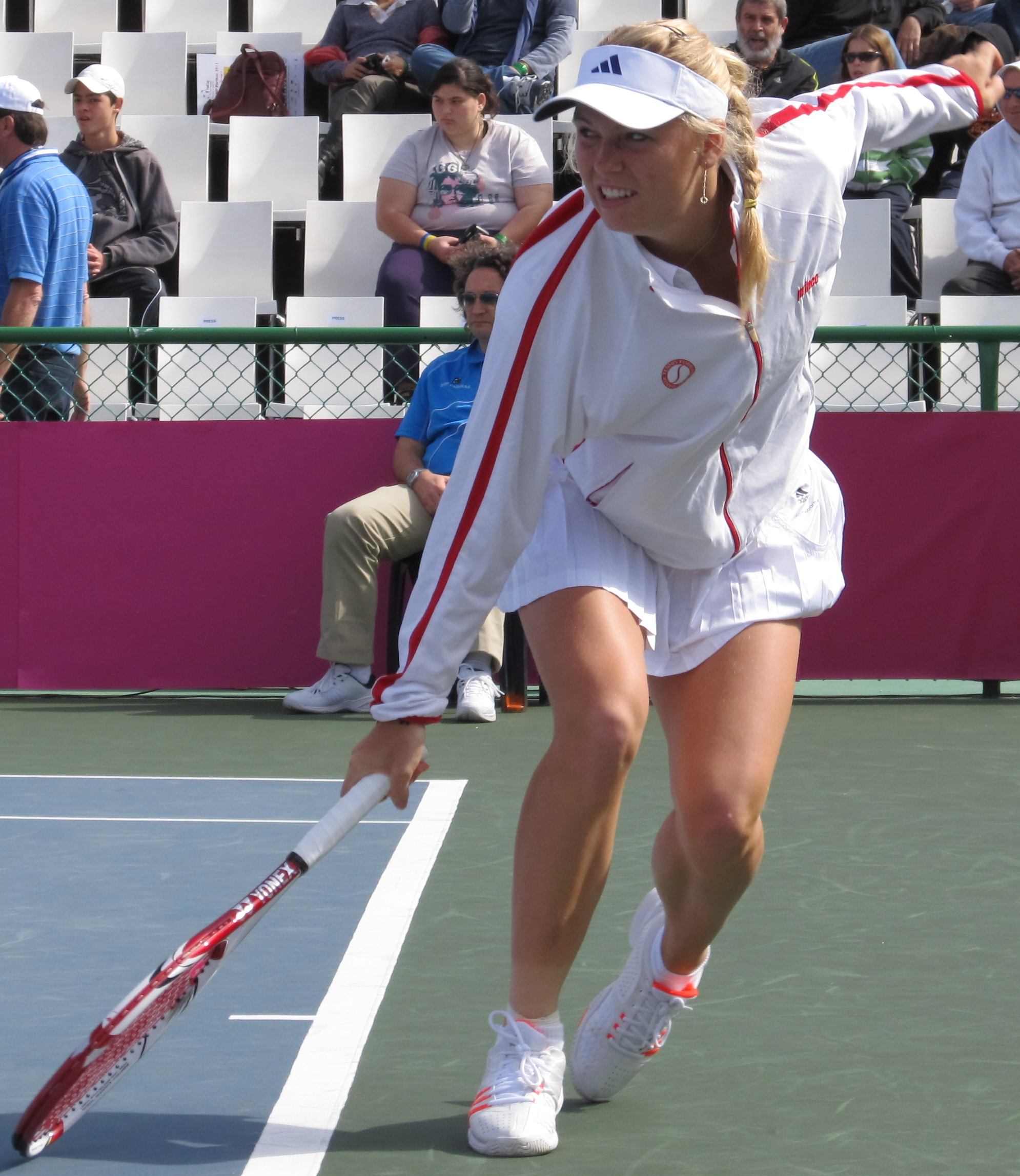 The tennis player Caroline Wozniacki of Denmark during her match against Patty Schnyder of Switzerland in the 2nd day of Fed Cup Group I 2011 Europe/ Africa in Eilat, Israel